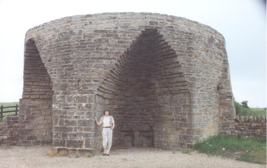 Limekiln, Large, 19th Century, at Crindledykes near Housesteads, Northumberland National Park